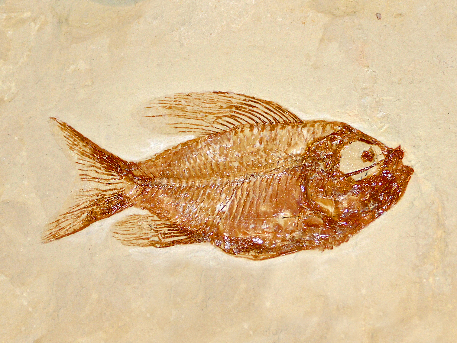 Fossil of Ctenothrissa vexillifer from Lebanon